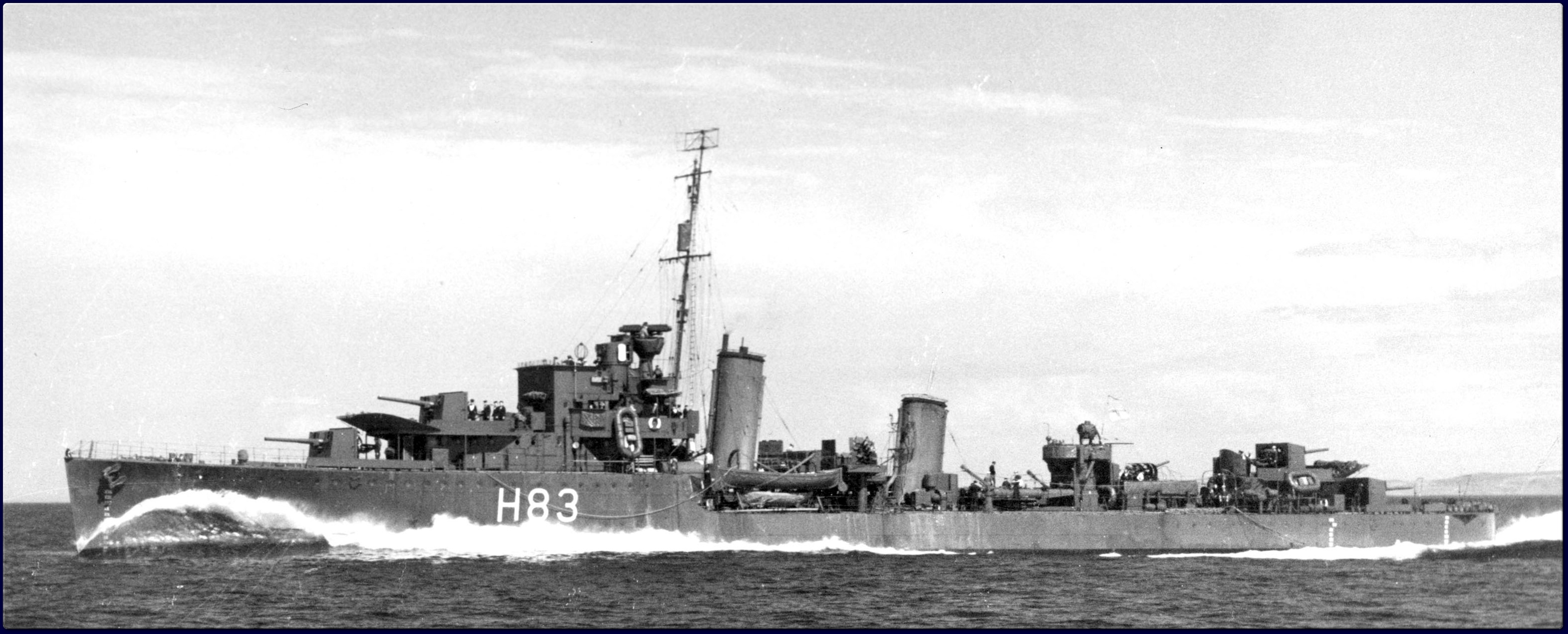 Photograph of Canadian destroyer HMCS St. Laurent (H83) (originally HMS Cygnet).